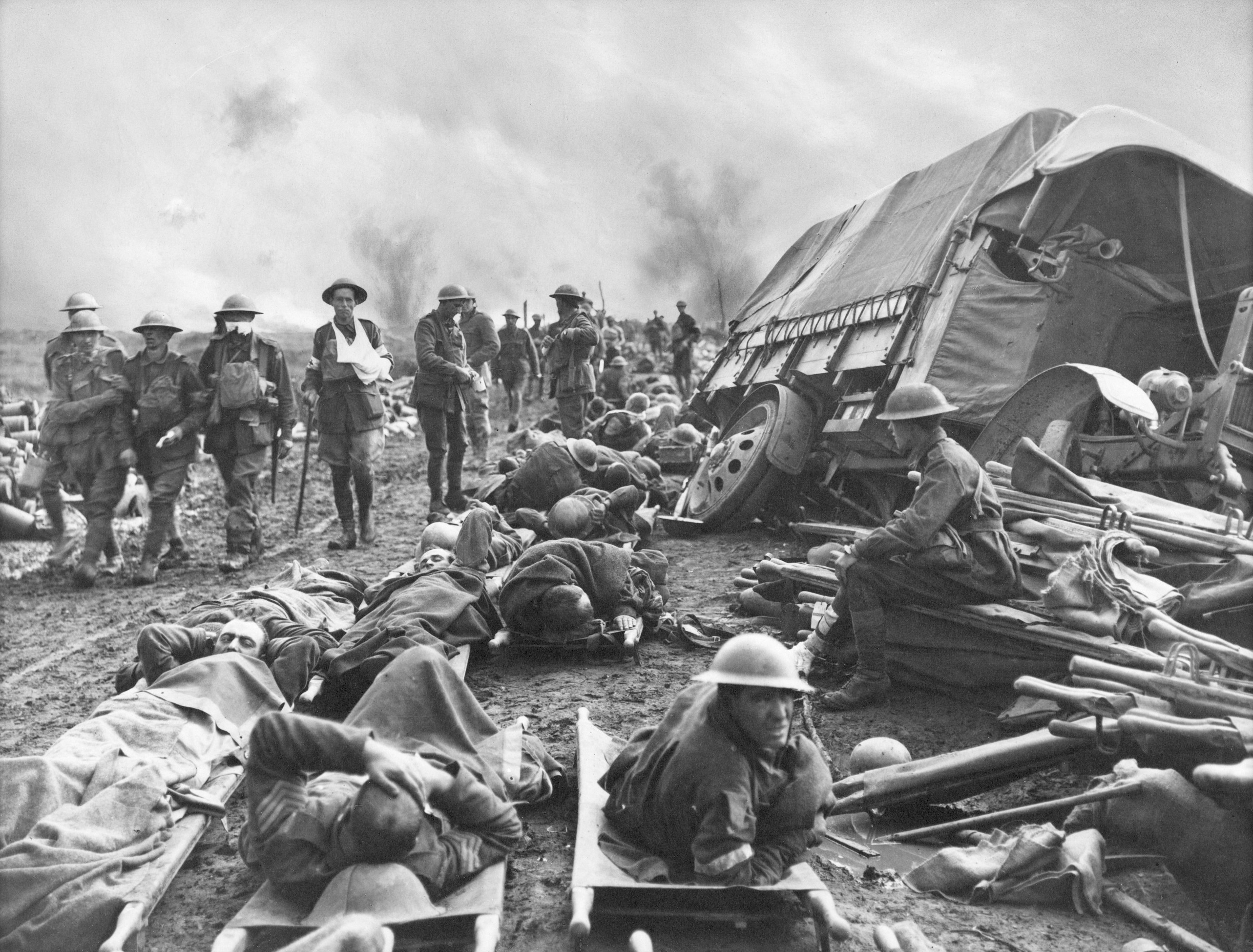 Battle of Menin Road. "Australian wounded on the Menin Road, near Birr Cross Road on September 20th, 1917". (Caption source: National Library of Australia, n.d. (1 June 2014).